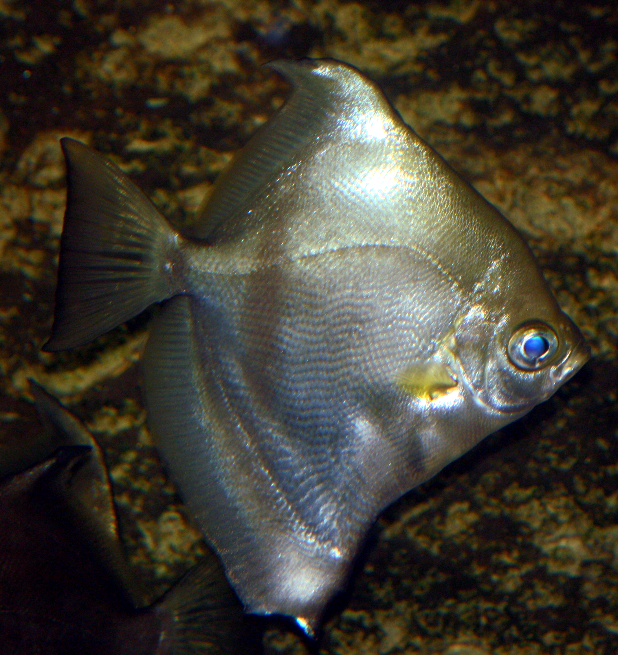 African Moony Monodactylus sebae at Louisville Zoo